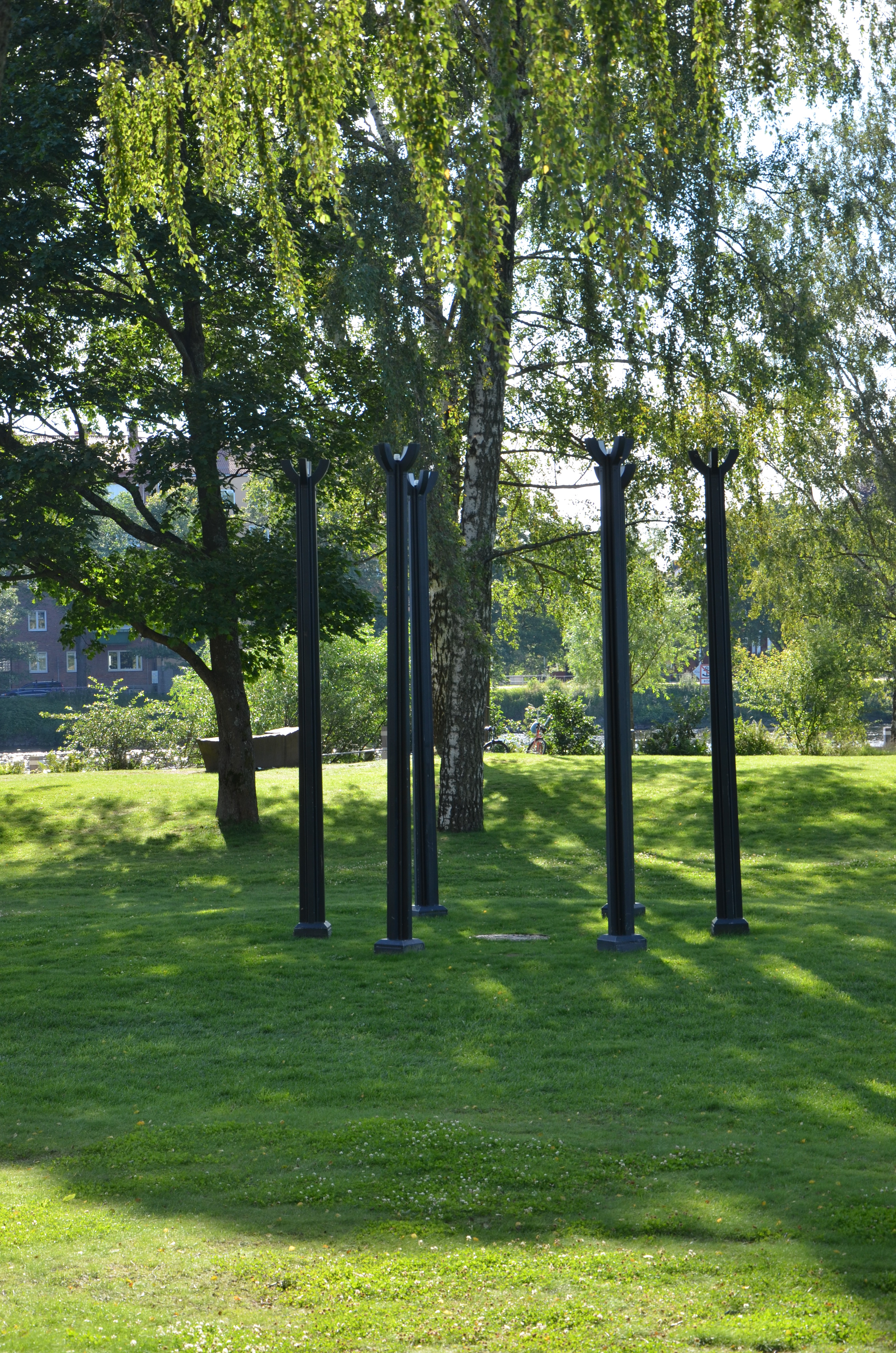 Christina Jonsson's Fur (Firtree) at Sandgrundsparken, Karlstad